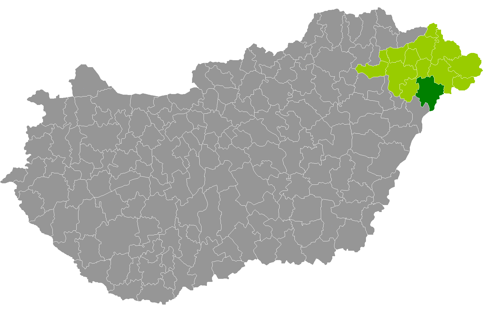 Location of Nyírbátor District, Szabolcs-Szatmár-Bereg, Hungary